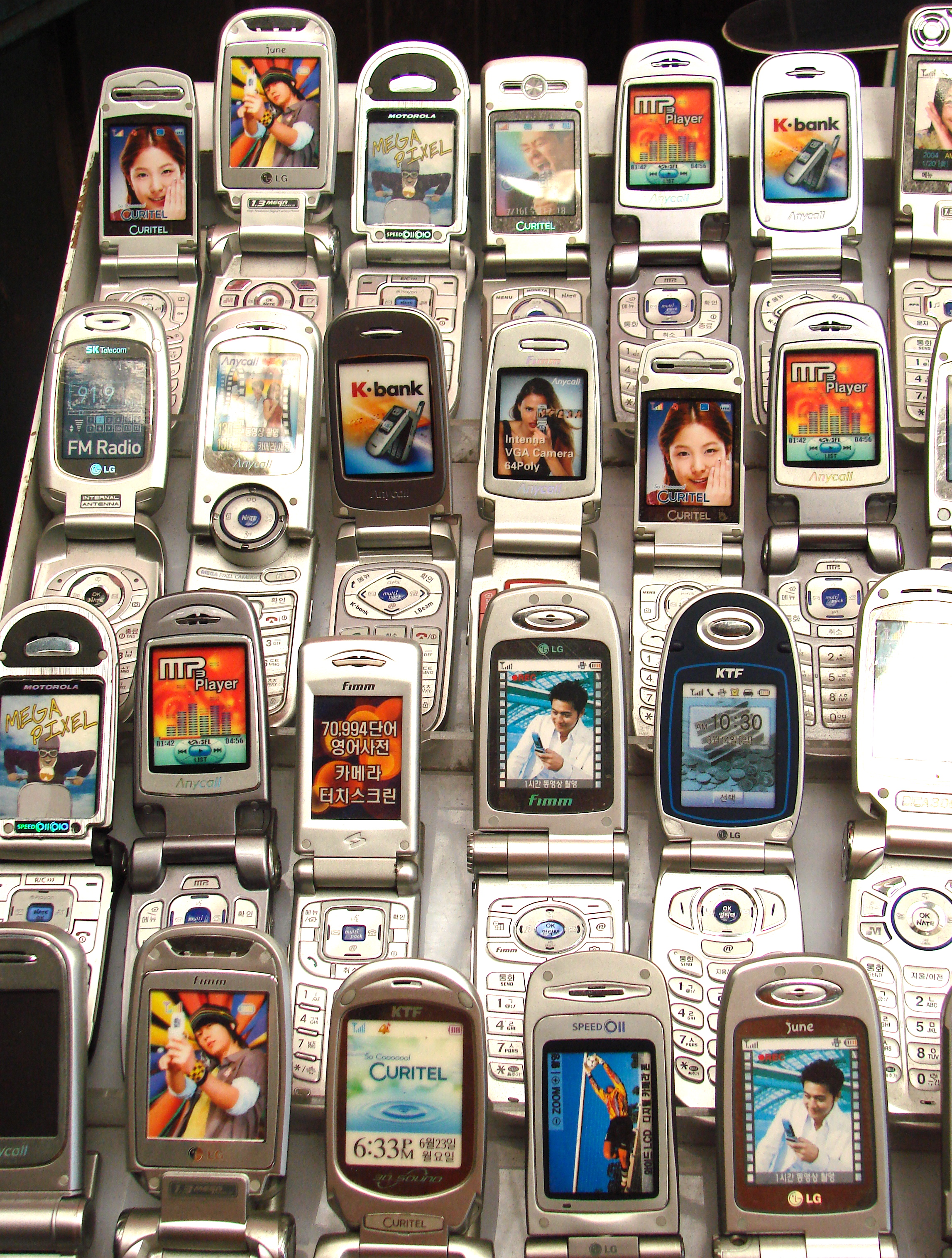 Various cell phones displayed at a shop.